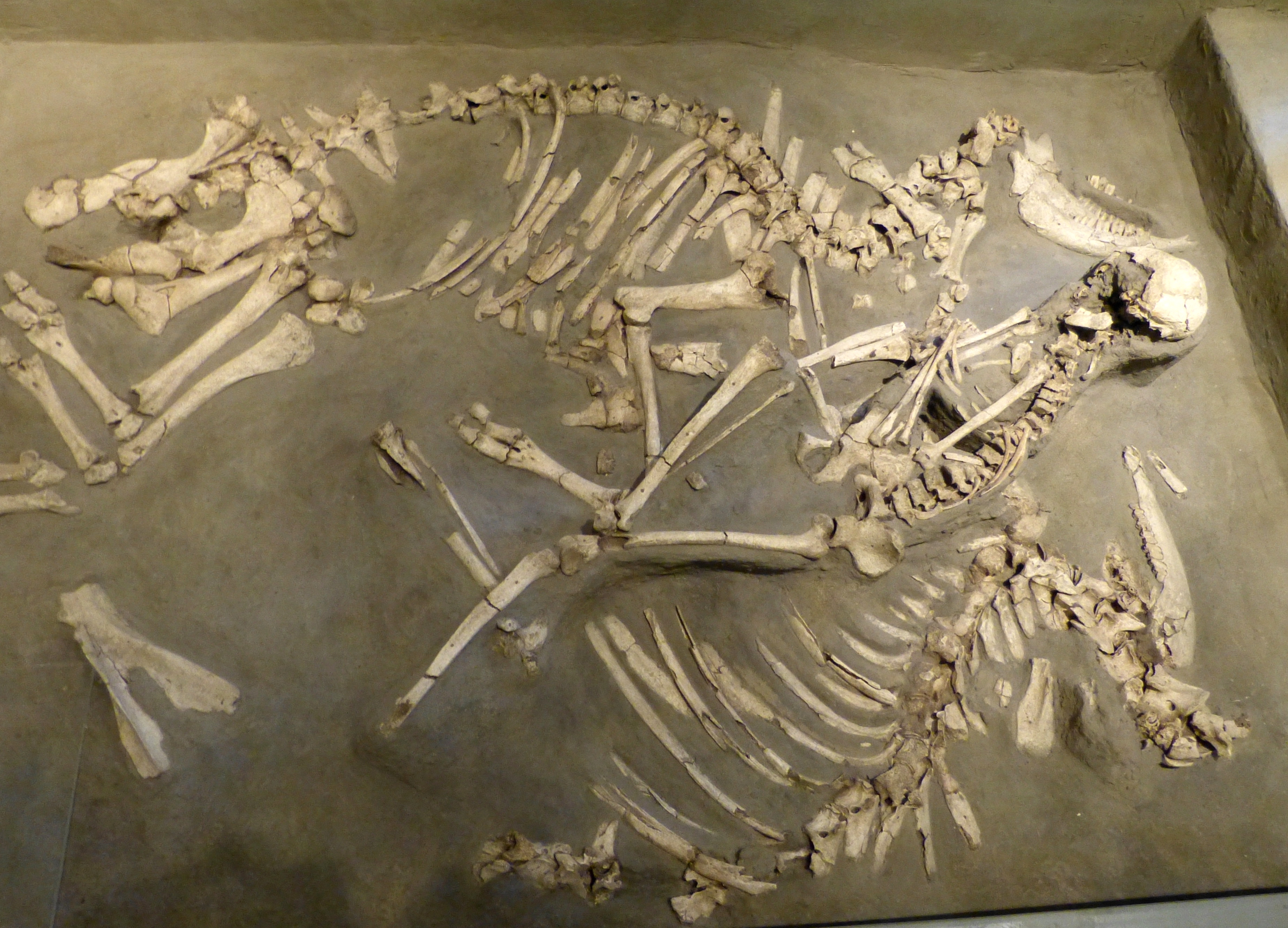 Weimar ( Thuringia ). Museum for Prehistory in Thuringia: Grave of man and cattle of the Globular Amphora Culture ( 3rd millenium BC ) in Mittelhausen ( Sangershausen district ).